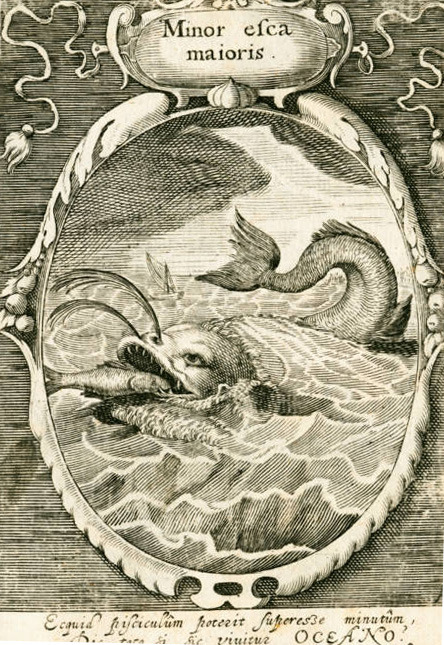 Emblemata Politica In Aula Magna Curiae Noribergensis Depicta by Peter Isselburg, 1617, Nüremberg, Germany. pp. 36 (caption: Minor esca maioris; Bilduntschrift: A big fish eating a smaller one)= Proverbial saying 'Big Fishes eat small fishes', from a book of emblems - Livre d'emblèmes